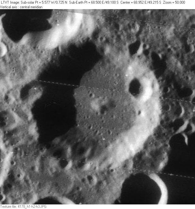 Crater Brisbane. Detail from Lunar Orbiter IV-178H. High resolution scans from the USGS Lunar Orbiter Digitization Project remapped to a north-up aerial view by LTVT.